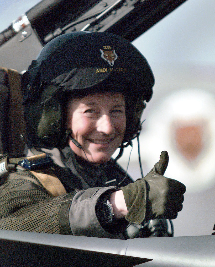 DNSD0105054 980320N8492C501 A female navigator from the 12th Royal Air Force Tornado squadron located in Lossiemouth, England (Scotland), gives a thumbs up on March 20th, 1998, after a final flight over the skies of Portugal during exercise Strong Resolve '98. The Squadron was operating out of the Beja Air Base in Beja, Portugal.